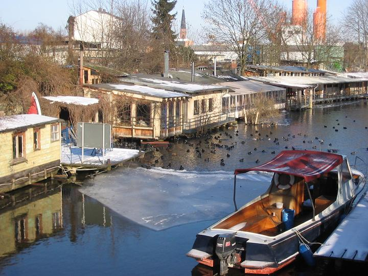 Landwehrkanal in Berlin-Kreuzberg. Lohmühleninsel, „Flutgraben“ with houseboats